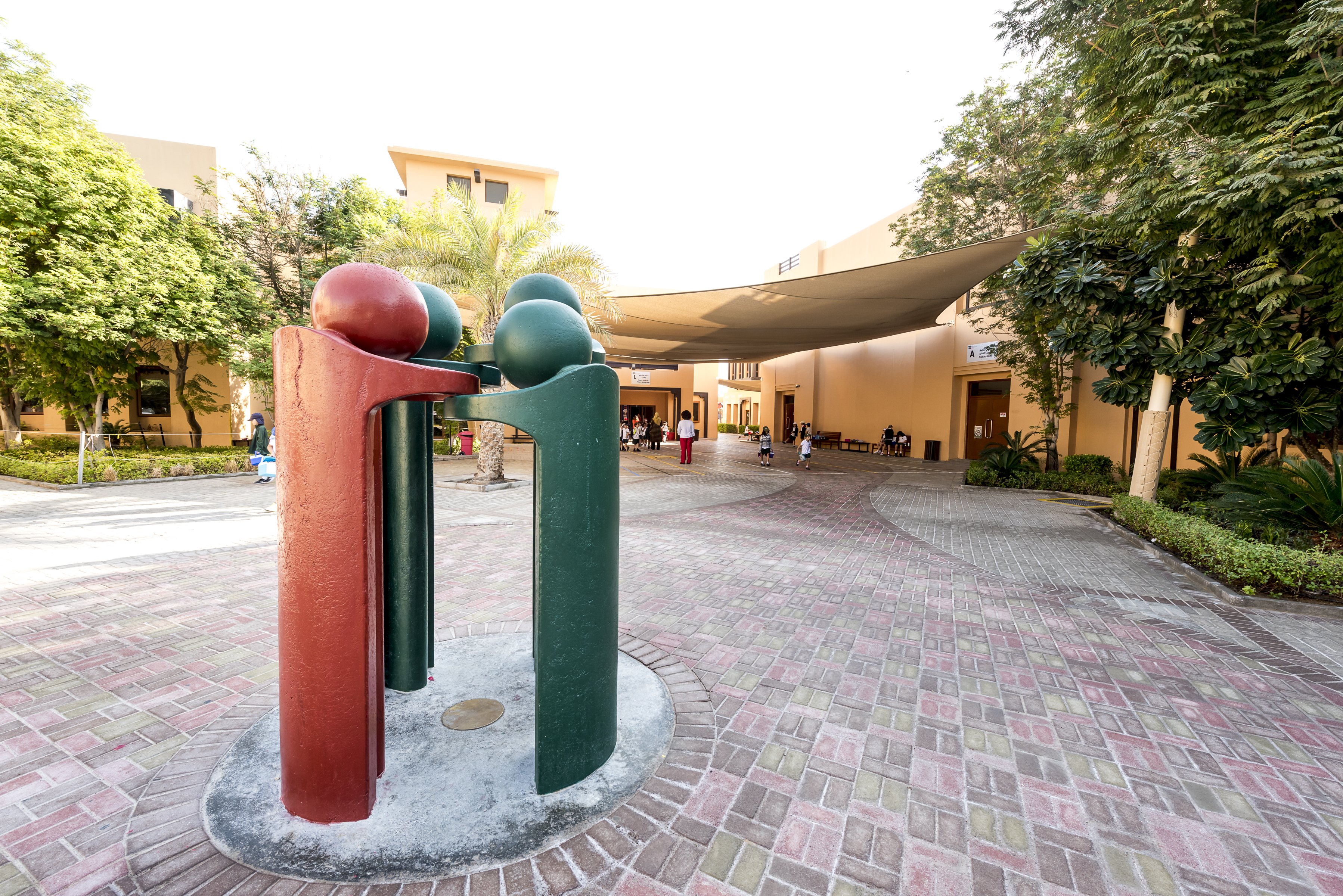 The Raha Sculpture represents the school logo